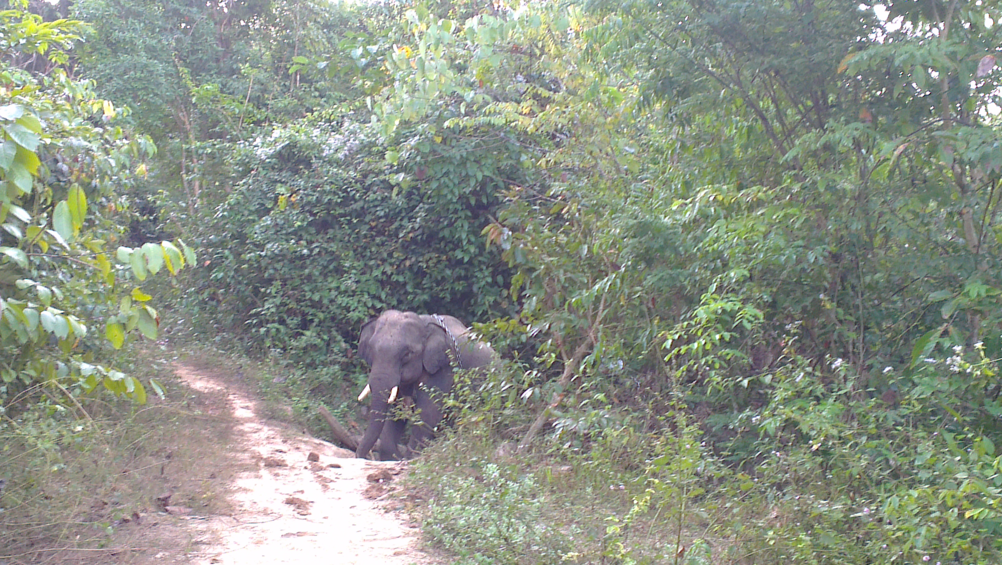 Elephant show at Phoe Kyar Natural Elephant Camp, Taungoo, Myanmar